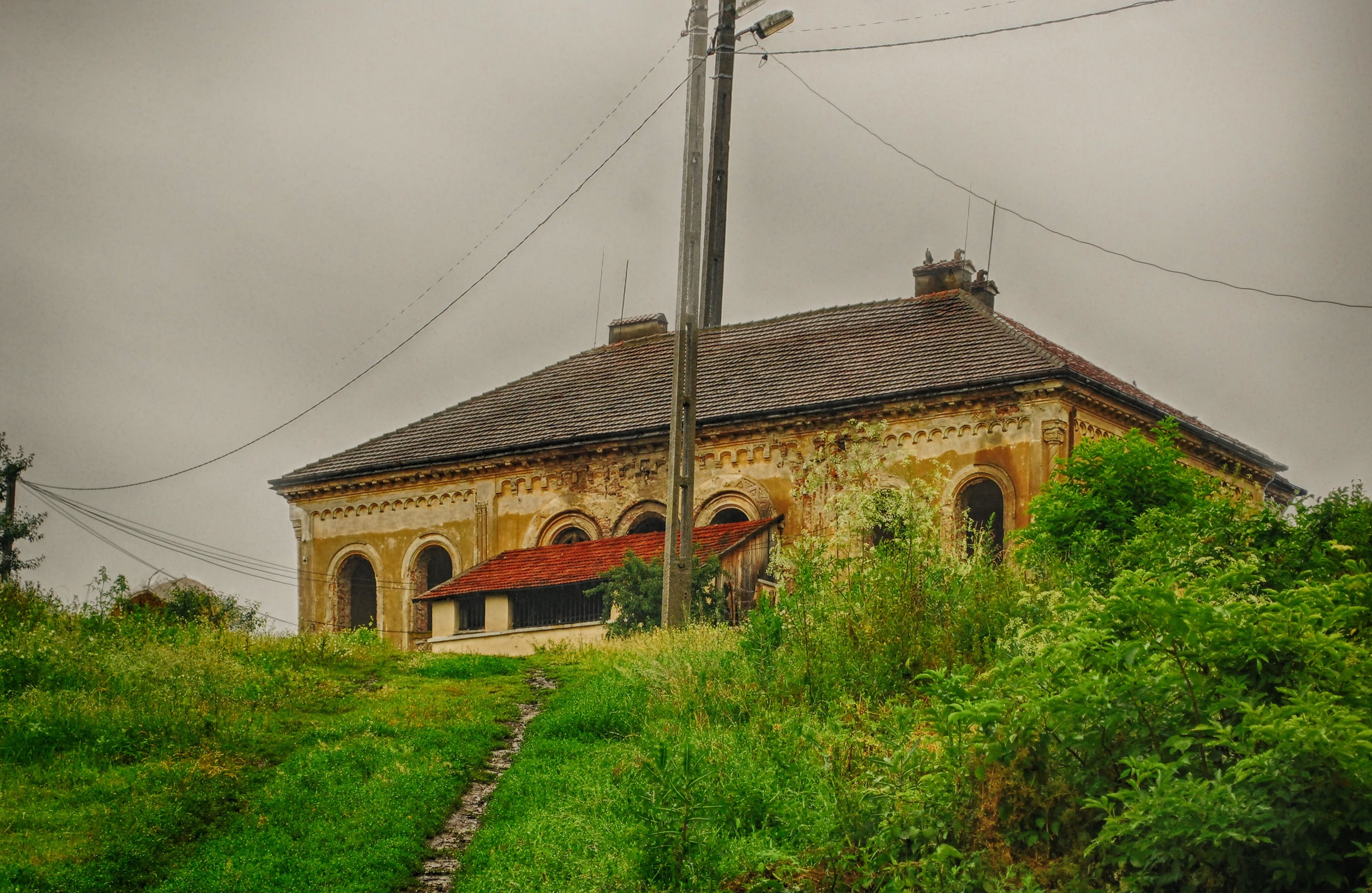 Domokos mansion in Araci, Vâlcele commune, Covasna County, RomaniaRomână: Conacul Domokos din Araci, comuna Vâlcele, județul Covasna, România